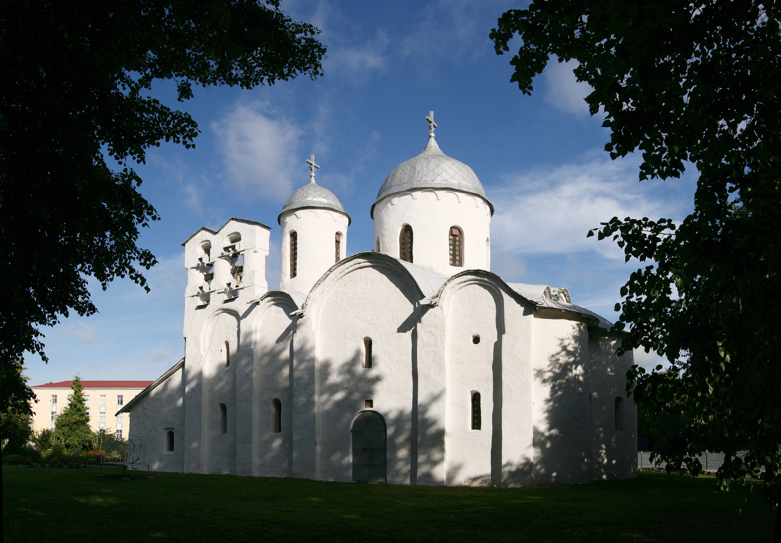 Saint John the Baptist Cathedral, 1247, Pskov